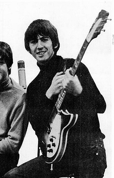 Trade ad for Beatles' 1964 Grammys. --- This is a version with just the Beatles isolated from the ad.